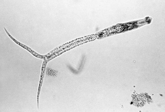 This historic 1942 photomicrograph revealed some of the morphologic details displayed by a schistosomal cercaria, which is the larval stage of a parasite that causes “swimmer’s itch”, and was magnified approximately 150x. This was one of a series of instructional images used by the Minnesota Board of Health to train its state public health workers. The purpose of the images and the accompanying training was focused on protecting potable water supplies from contaminants including toxins, and pathogenic organisms, such as the parasite pictured here. This material was obtained from Professor William A. Riley, of the University of Minnesota. The sample itself was taken from Lake Owasso, Minnesota.